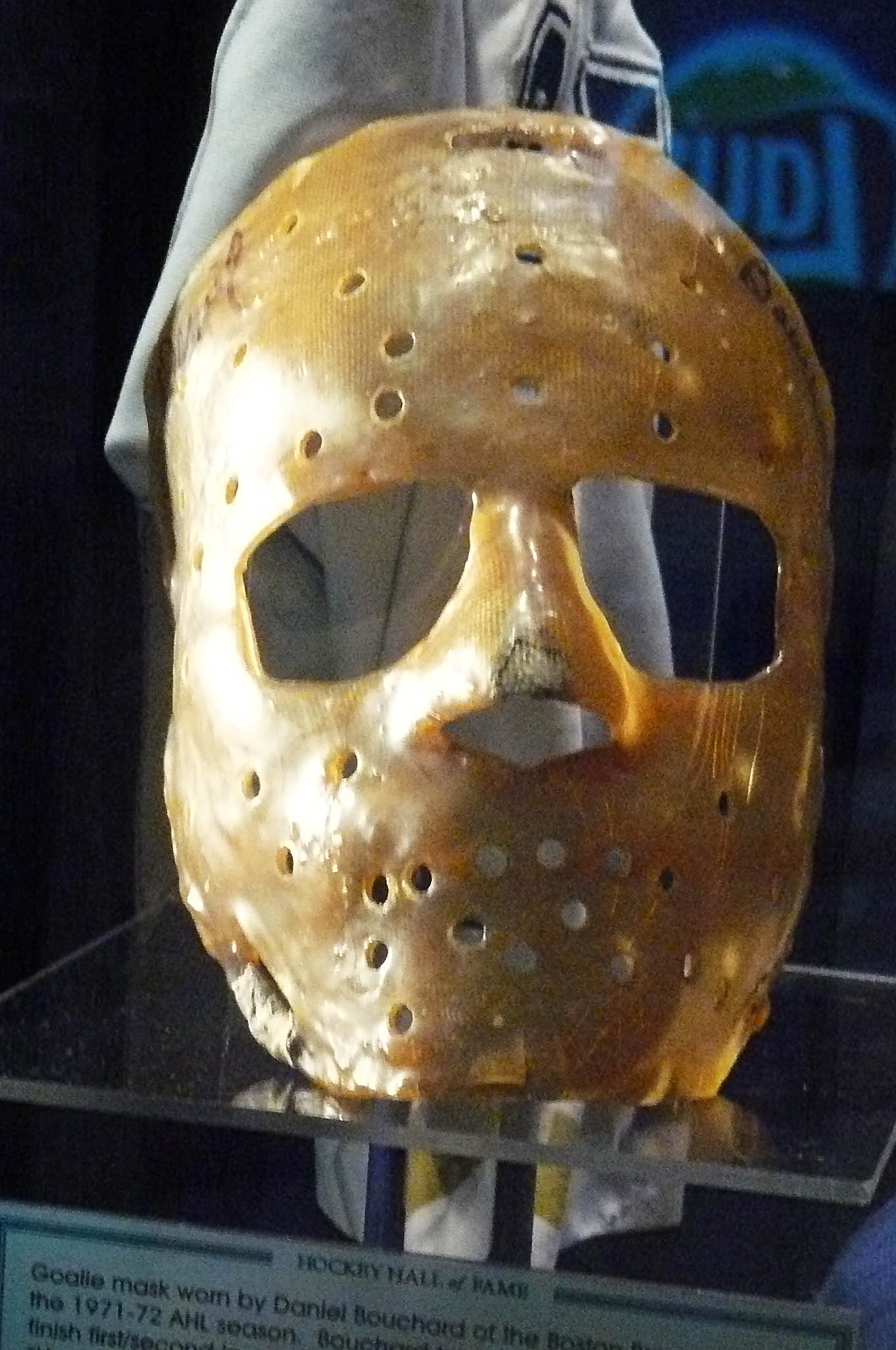 Hockey Hall of Fame.